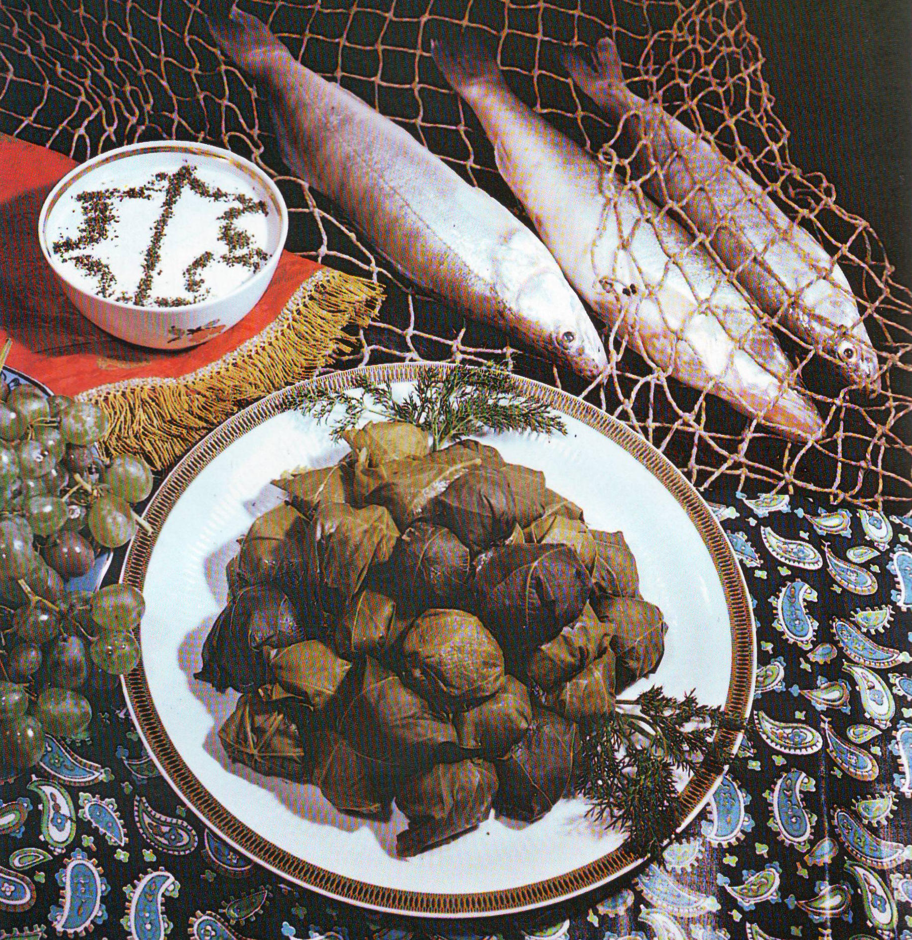 Cuisine of Azerbaijan: Fish dolma (kutum, picke perch)